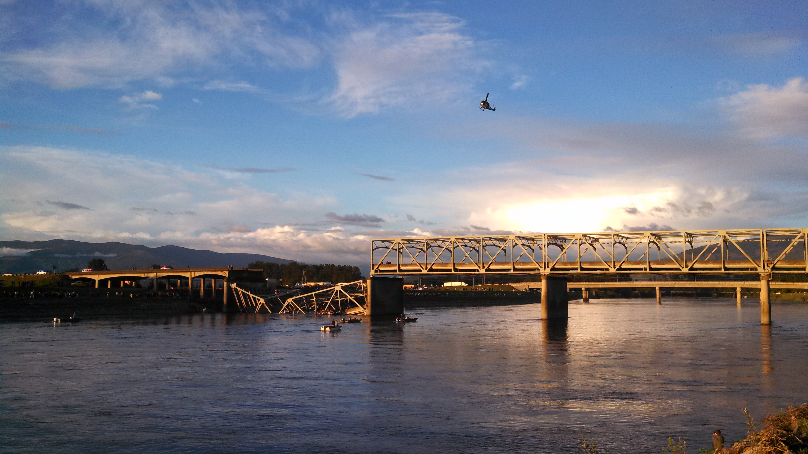 The i5 Bridge over the Skagit River collapsed tonight after a truck hit the trusses. The story is still unfolding. We were able to watch them rescue some people out of the water.